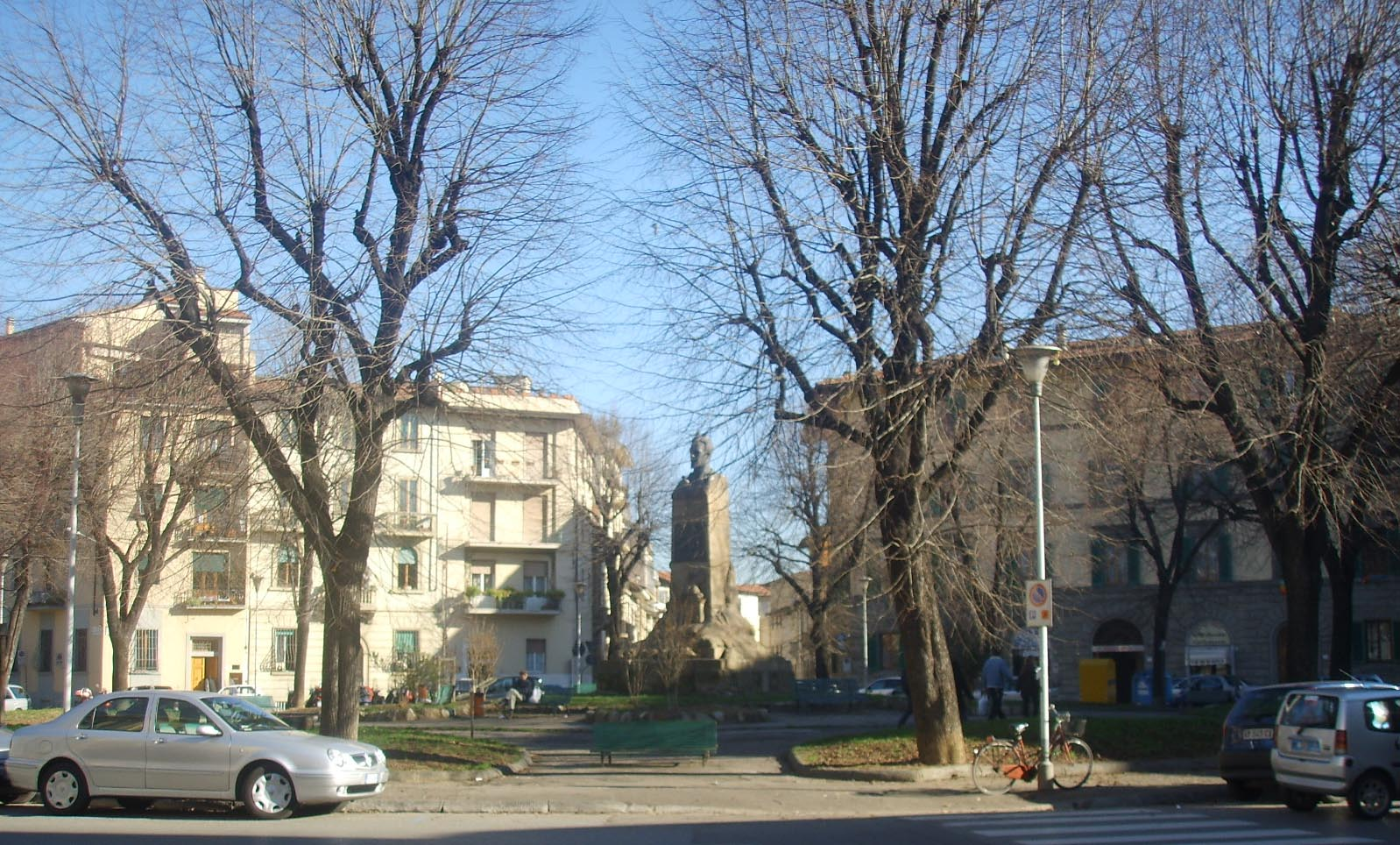 Monument of Guglielmo Oberdan in Piazza Oberdan in Florence, Italy. Sculptor Ugo Cipriani